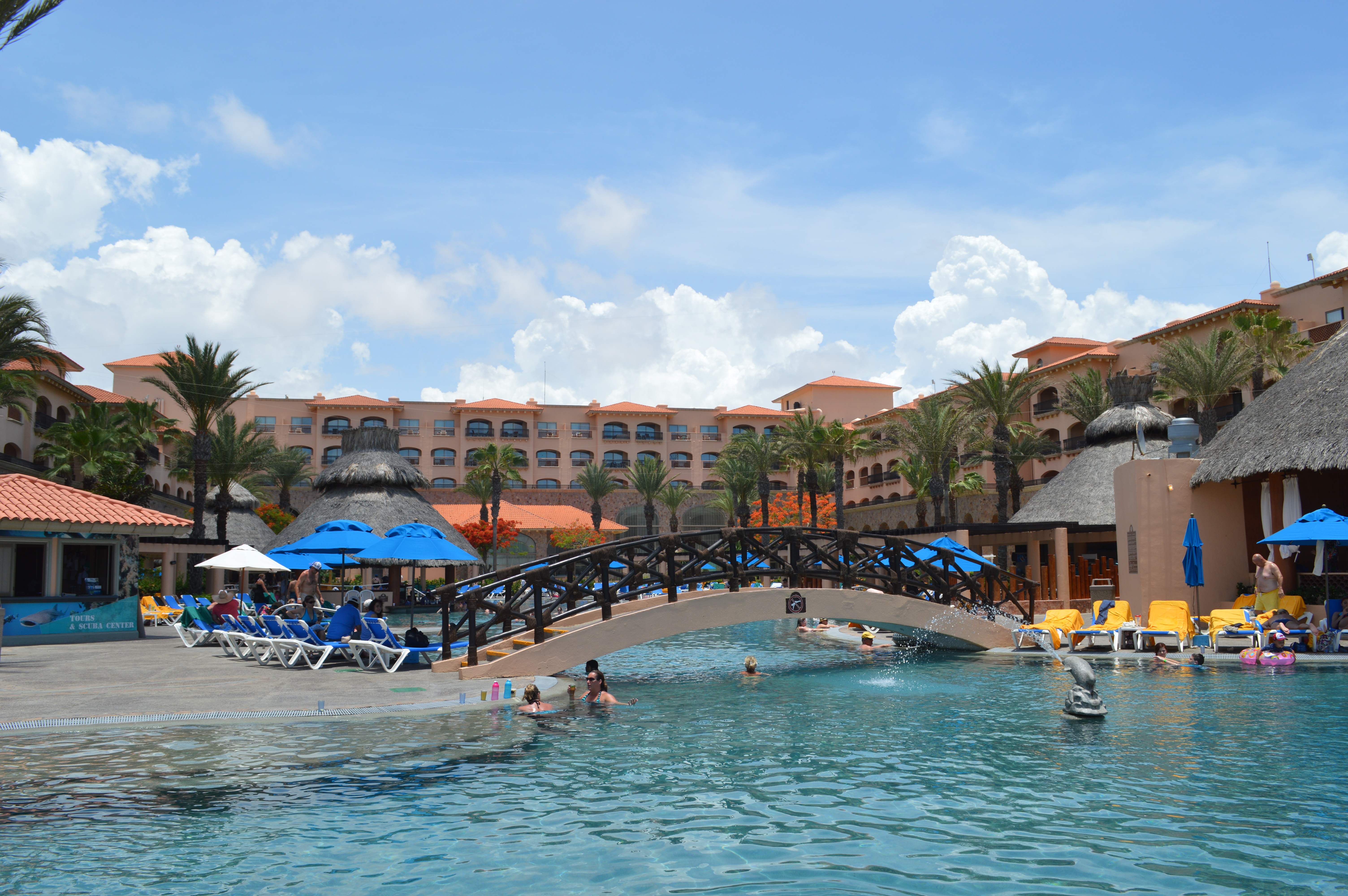 Pool area of the Royal Solaris resort in San José del Cabo, Baja California Sur